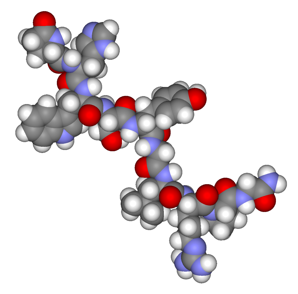 Space-filling model of gonadotropin-releasing hormone. Created using ACD/ChemSketch 10.0, Accelrys DS Visualizer Pro 1.6 and GIMP.